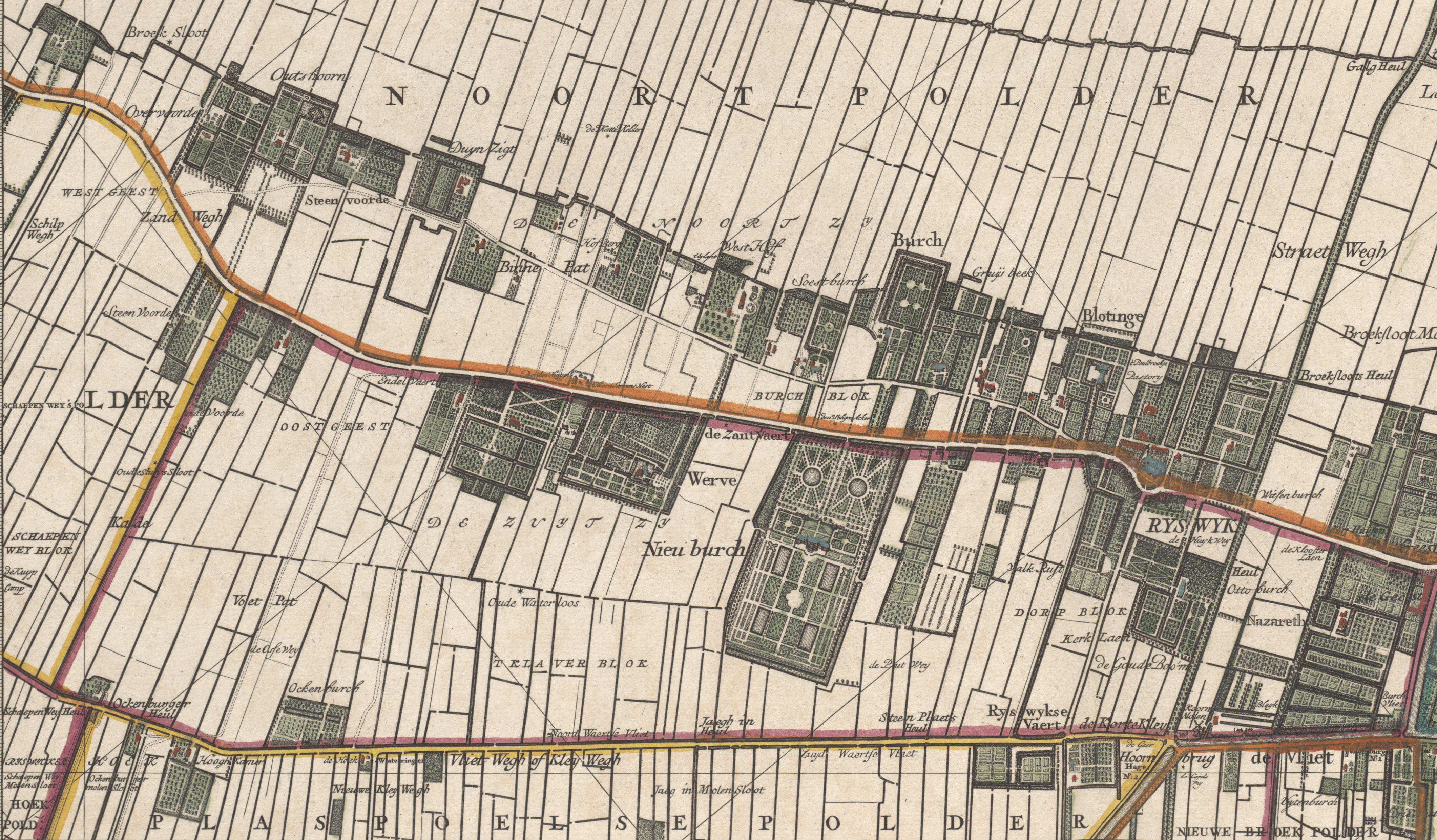 Country estates Rijswijk Netherlands 1712